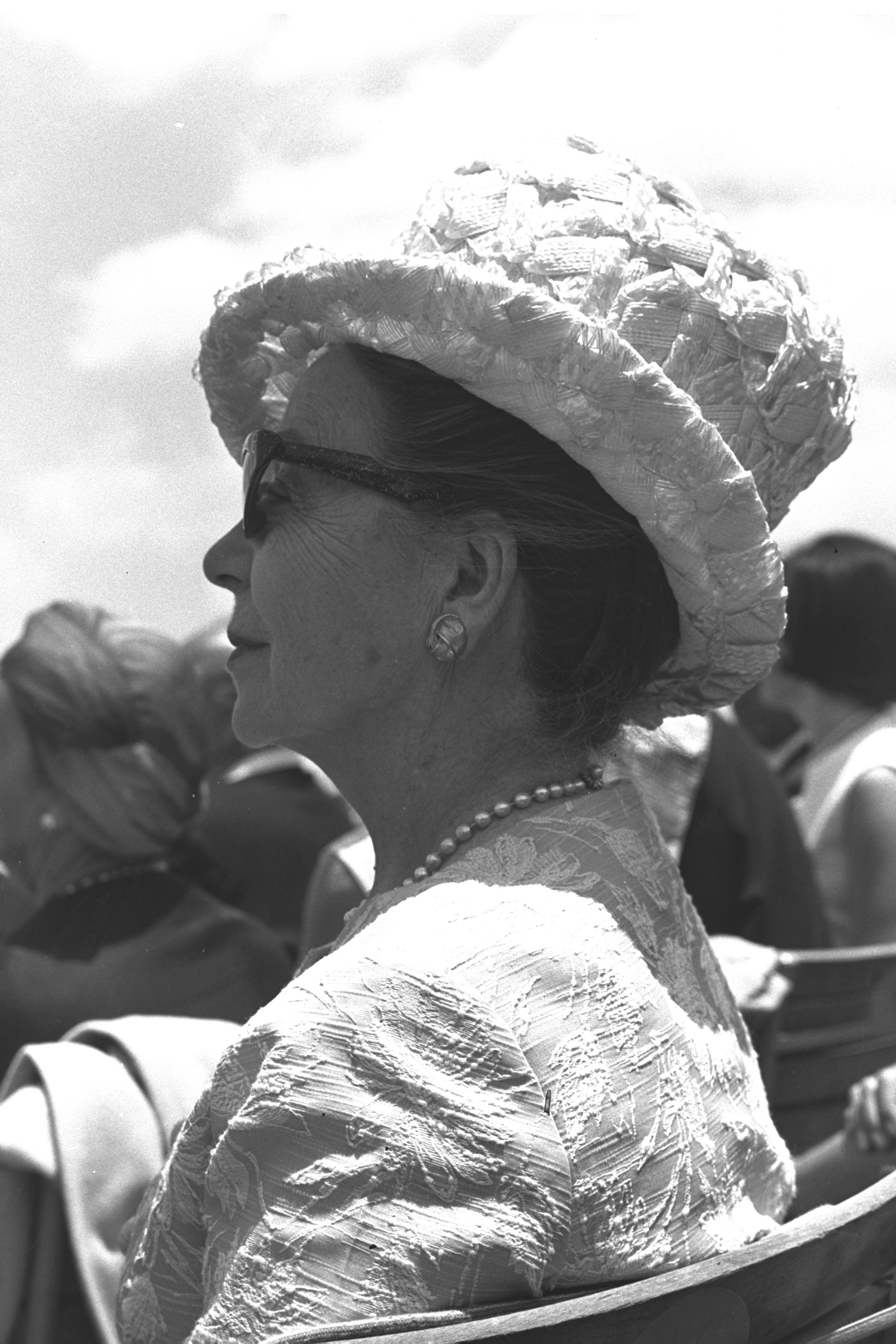 MRS. ROSE HALPERIN, MEMBER OF THE ACTION COMMITTEE OF THE WORLD ZIONIST ORGANIZATION.